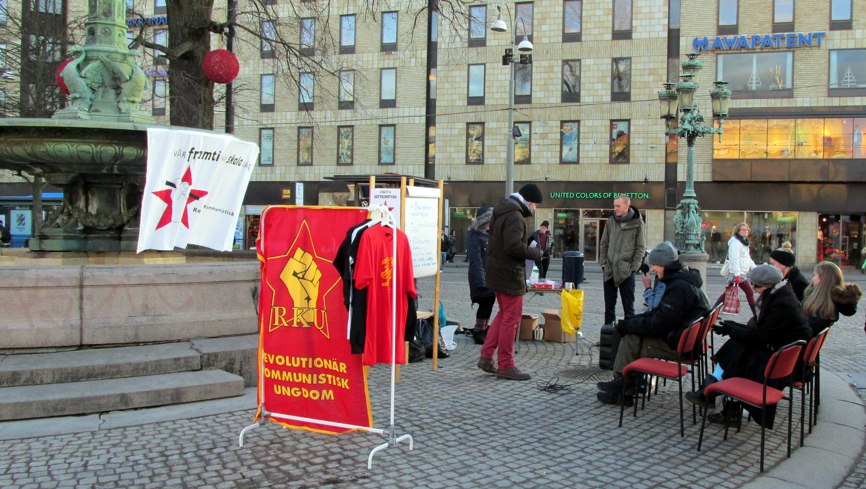 Revolutionary Communist Youth in Gothenburg (Sweden)